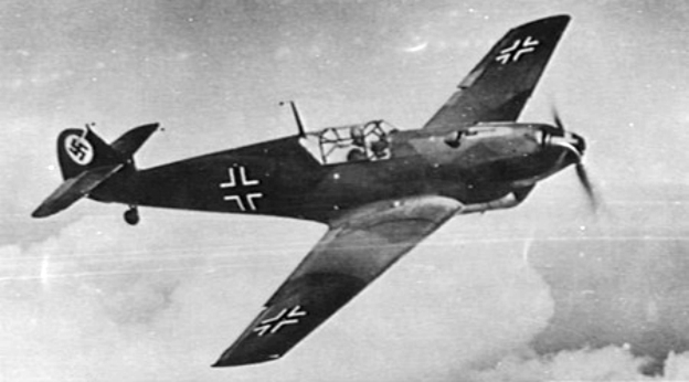 A German Messerschmitt Bf 109B-2 in flight before the Second World War.